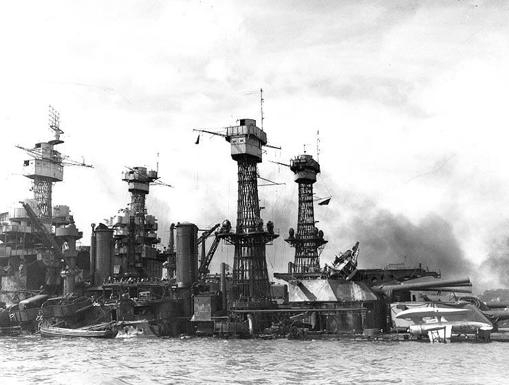 The sunken battleship USS West Virginia (BB-48) at Pearl Harbor after her fires were out, possibly on 8 December 1941. USS Tennessee (BB-43) is inboard. A Vought OS2U Kingfisher floatplane (marked "4-O-3") is upside down on West Virginia's main deck. A second OS2U is partially burned out atop the Turret No. 3 catapult. Note the CXAM radar antenna atop West Virginia´s foremast.